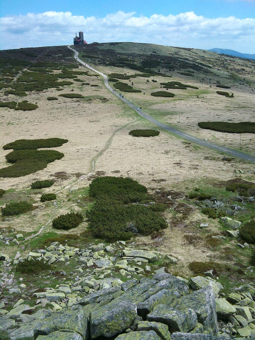 Vysoká pláň from Violík